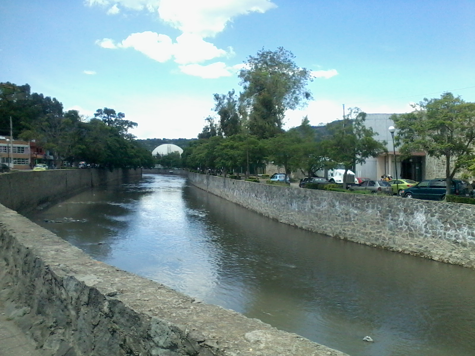 The Zahuapan river through Tlaxcala city